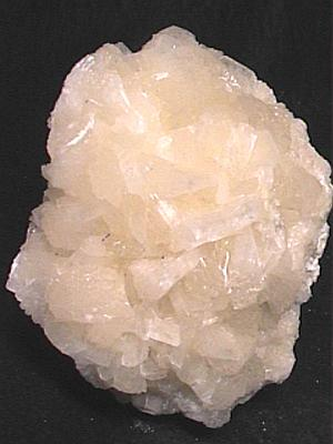 Nahcolite Locality: California, USA (Locality at ) An exceptional large specimen with crystals to 2 cm! Old material not readily obtainable, even in local collections...In fact, I can honestly say that I haven't even SEEN one for sale in the 8 years I have lived in Southern California. These were collected several decades ago. 9.5 x 8 x 4 cm